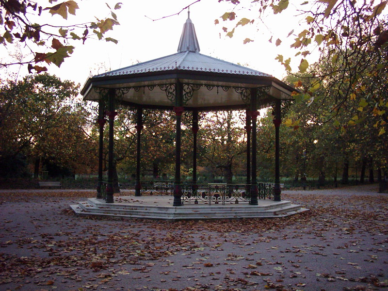 Banstand in Battersea Park, London.